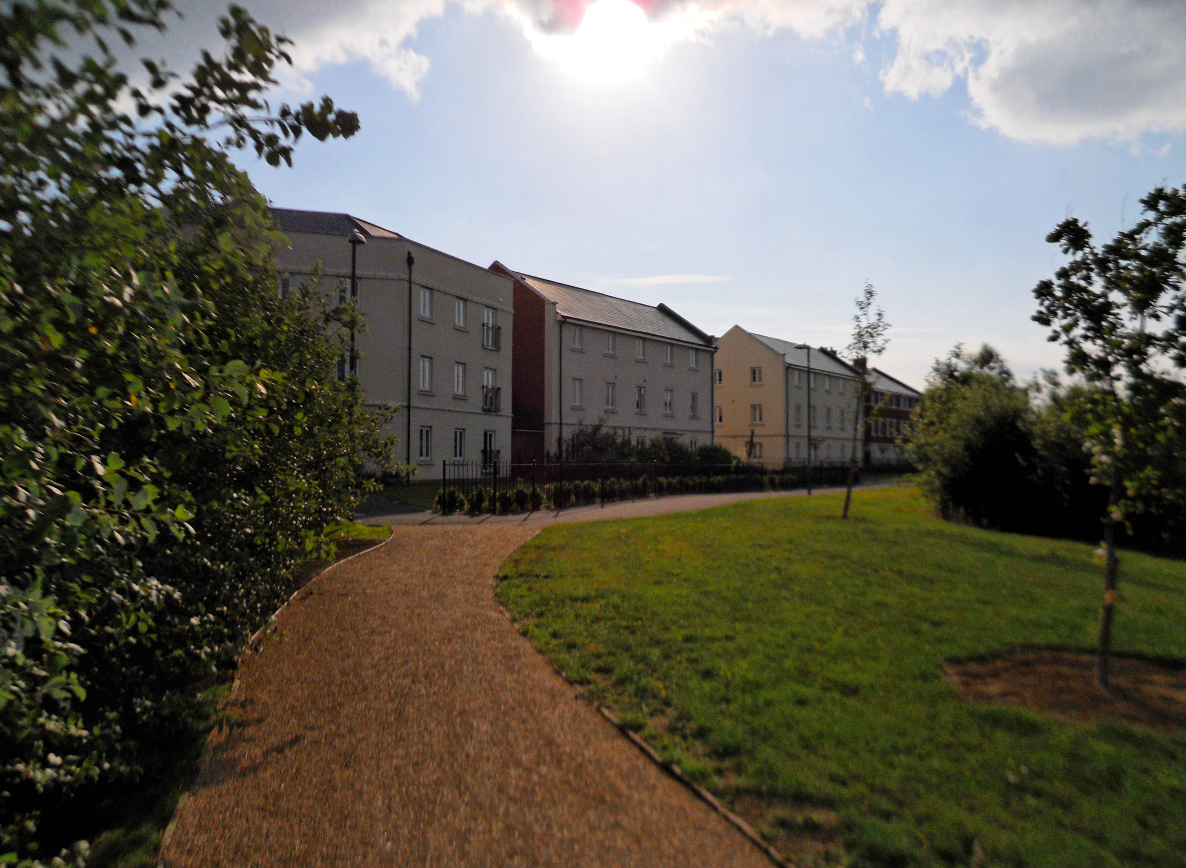 Coopers Edge Housing Estate